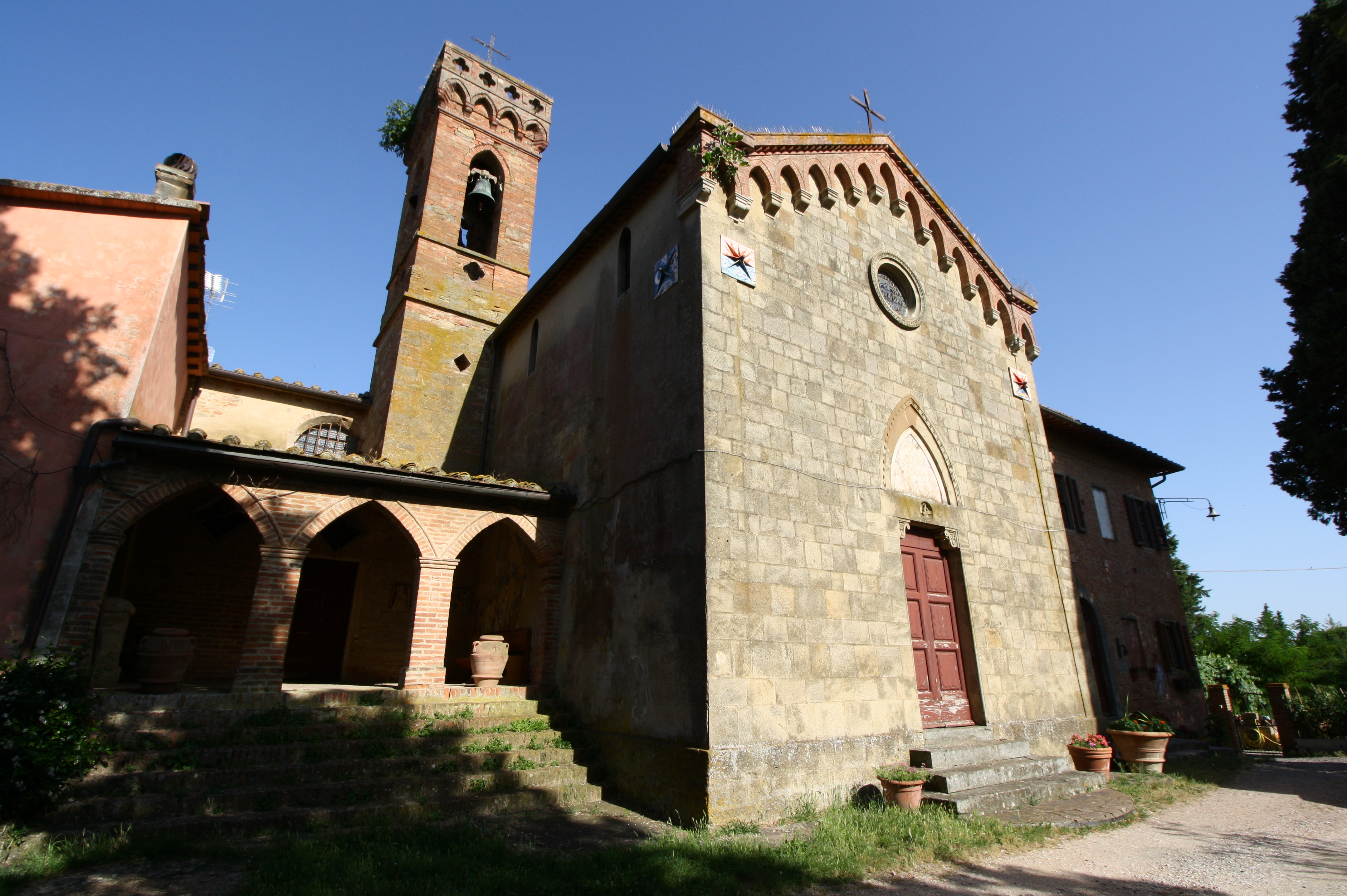 Church San Germano, Moriolo, territory of San Miniato, Province of Pisa, Tuscany, Italy